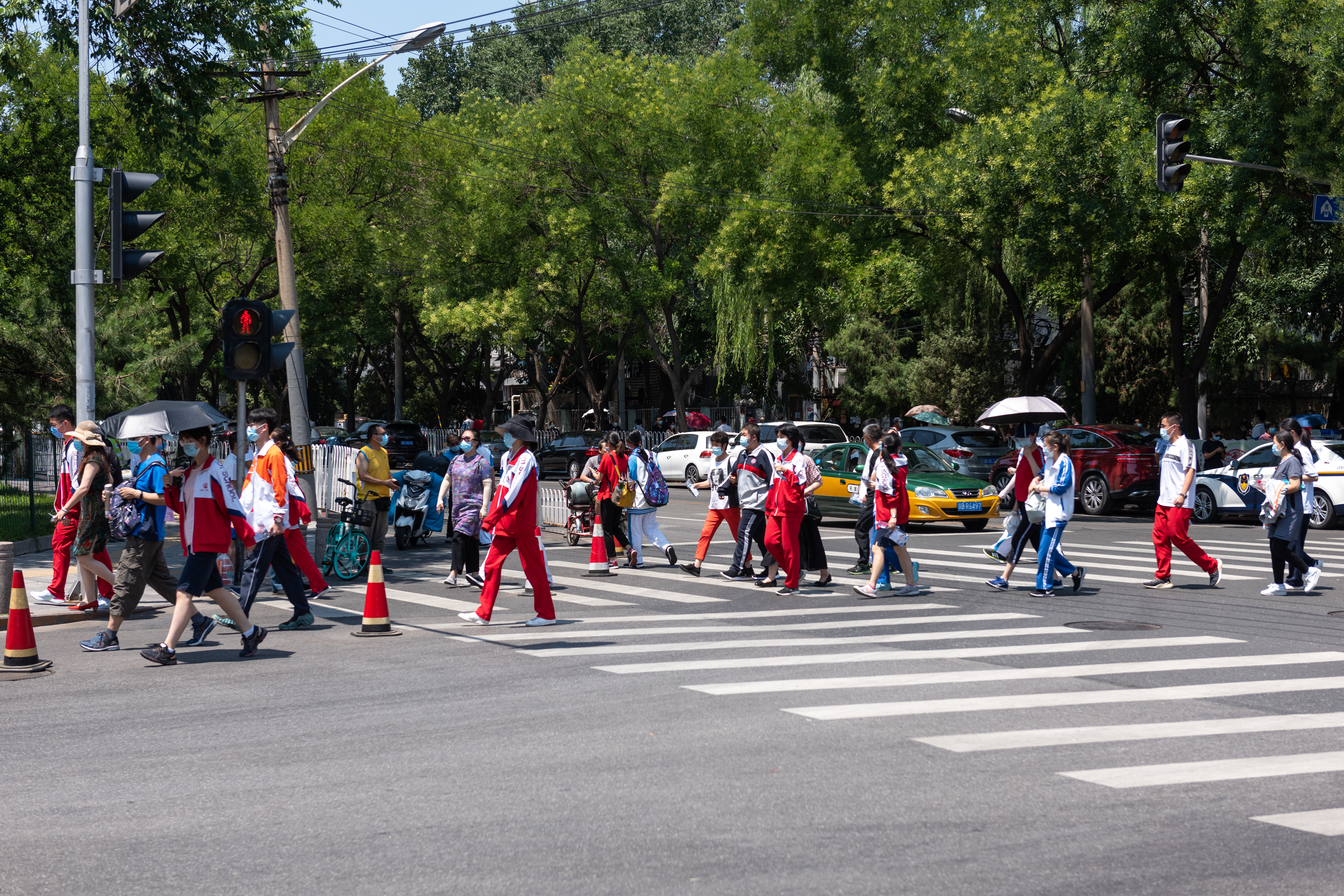 101 in red uniform.